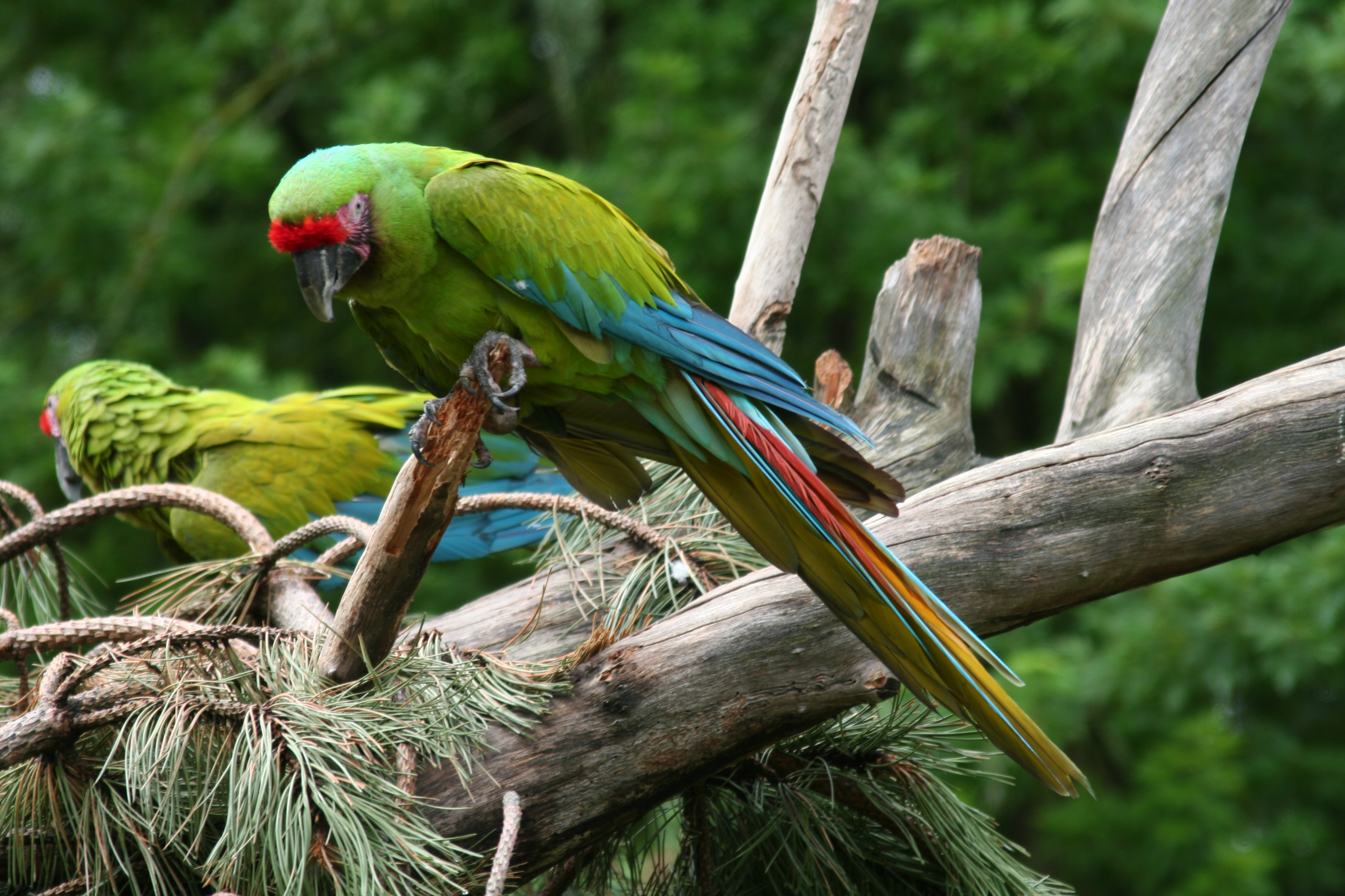 Ara ambigua from Zoo Schmiding